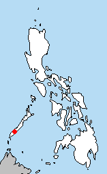 Distribution of the rodent Palawanomys on Palawan, the Philippines.